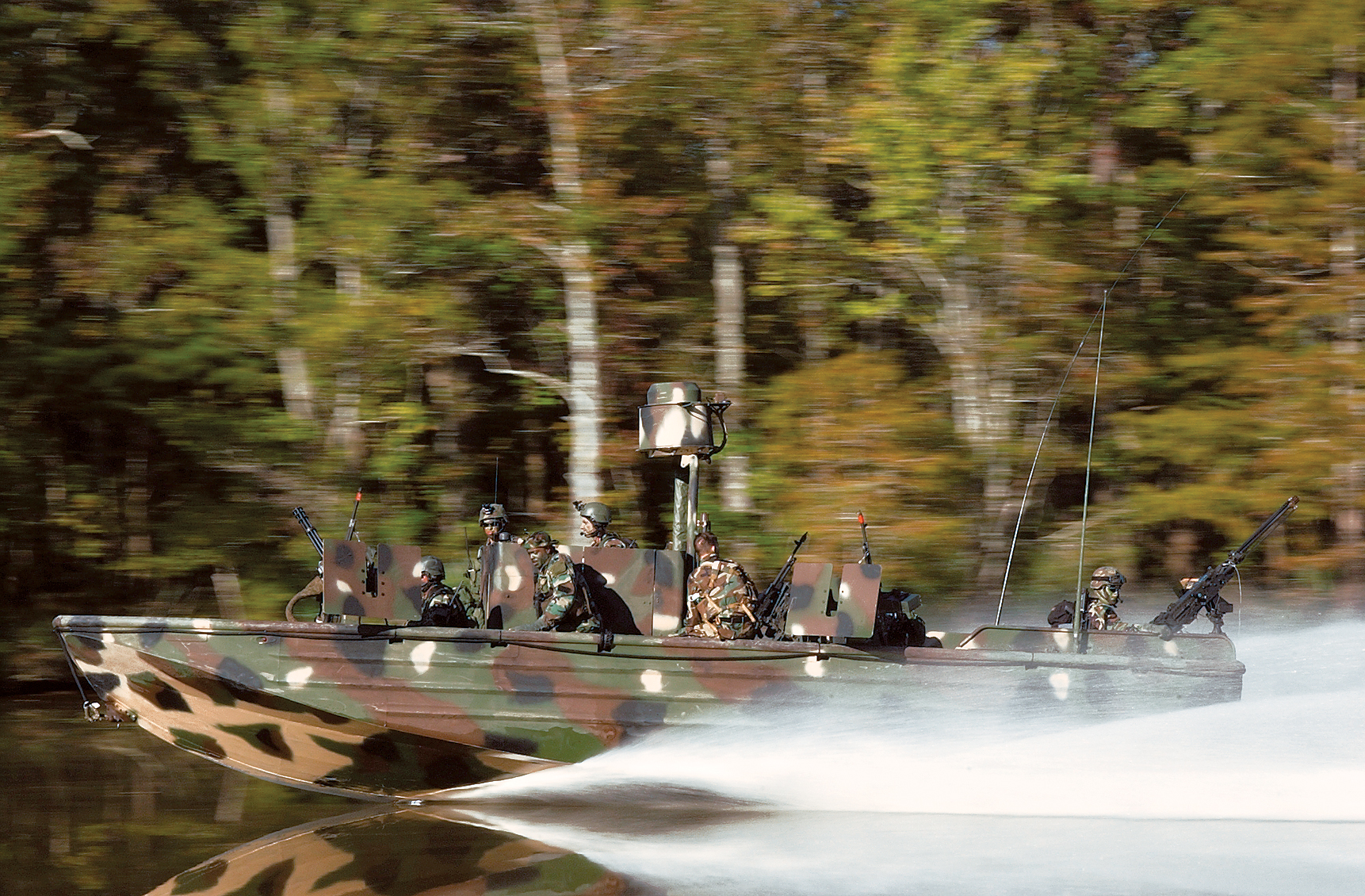 US Navy Special Warfare Combatant-craft Crewmen with Special Boat Team 22 out of Stennis, MI operate a Special Operations Craft - Riverine (SOC-R) during riverine operations training.